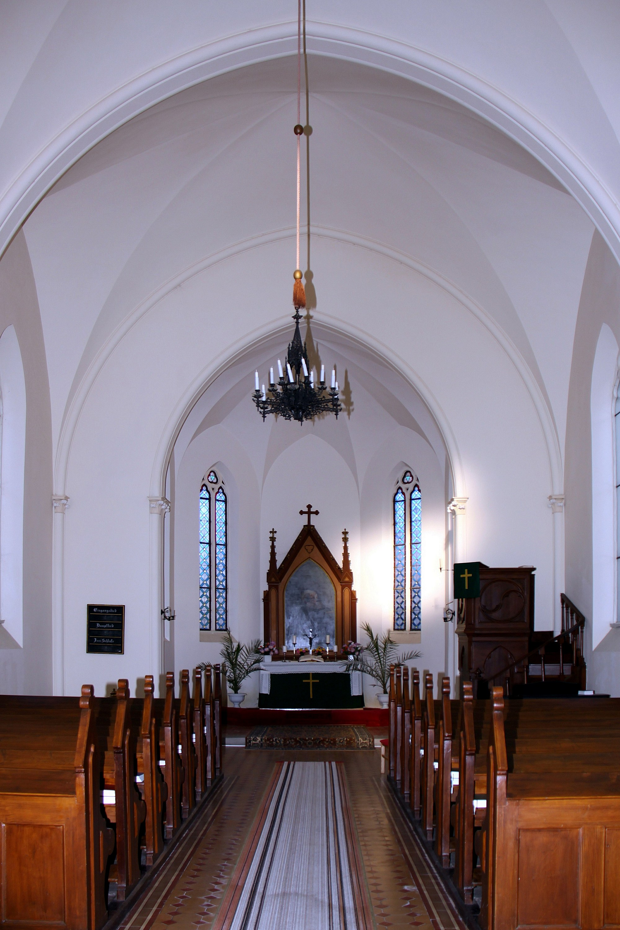 Evangelical parish church - Neufeld an der Leitha. Object location47° 52′ 00.56″ N, 16° 22′ 37.64″ E